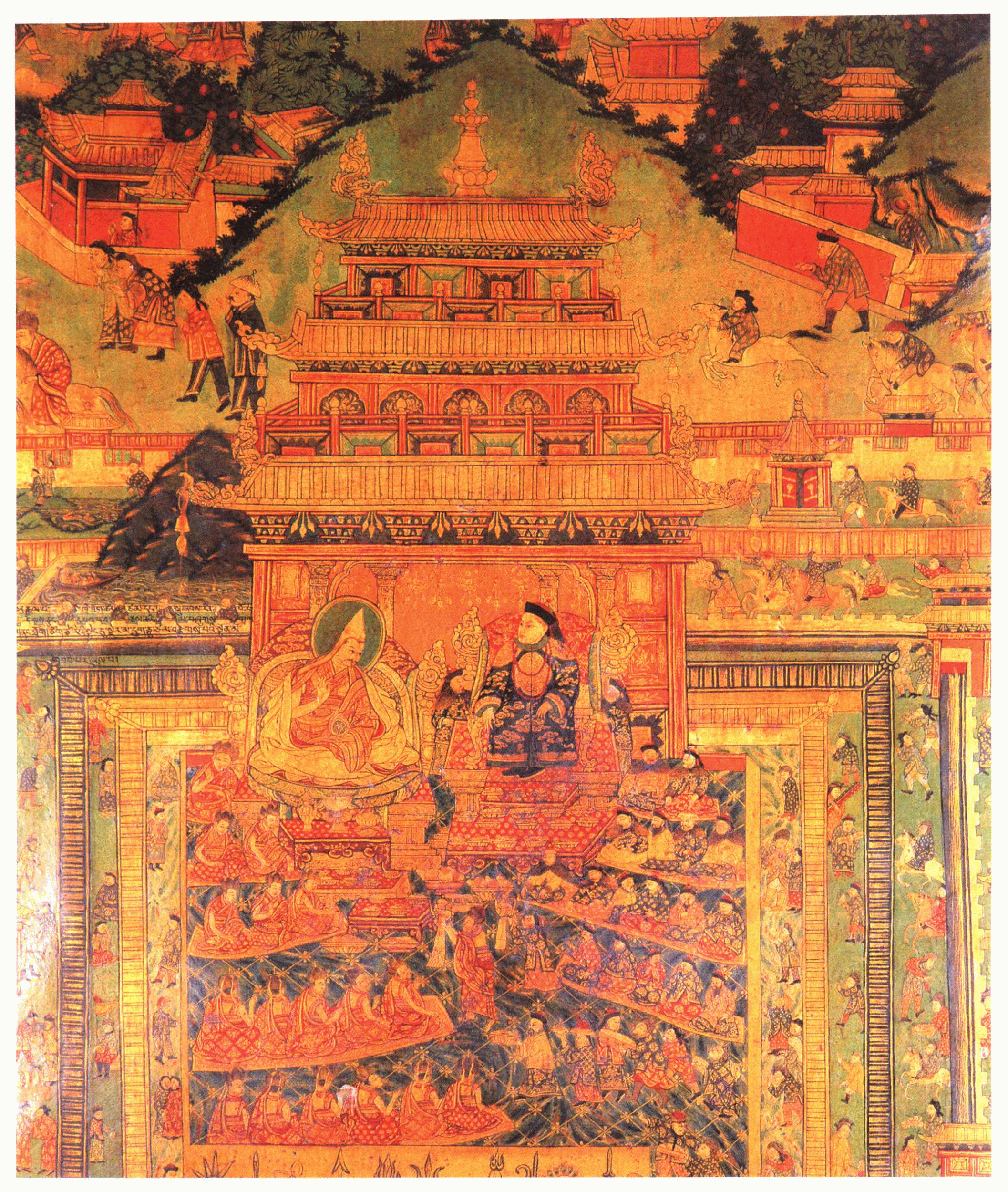 Lozang Gyatso, 5th Dalai Lama having an audience with Shunzhi Emperor